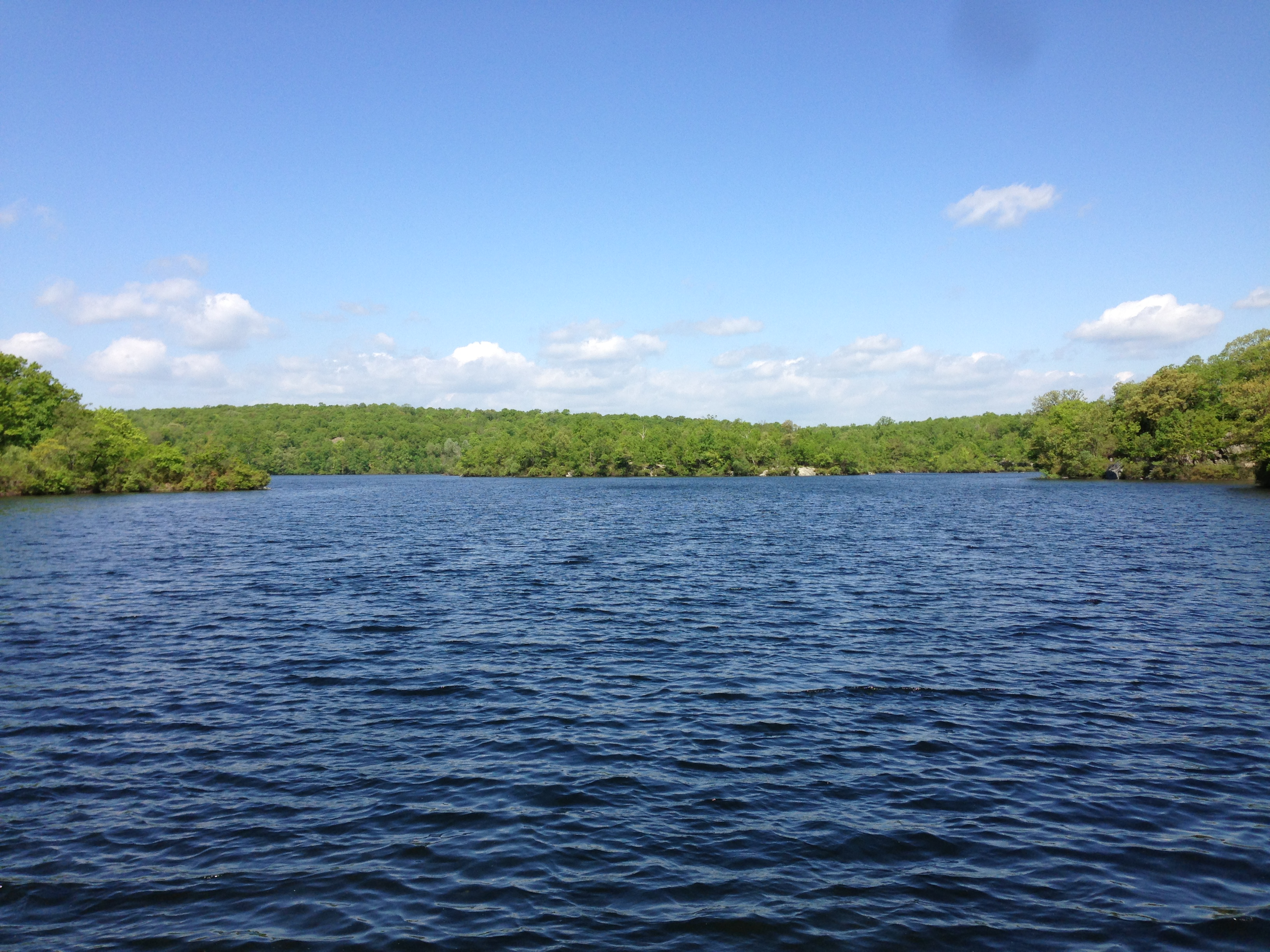 View northwest from Ramapo Lake Dam on the Hoeferlin Trail in Ramapo Mountain State Forest, New Jersey